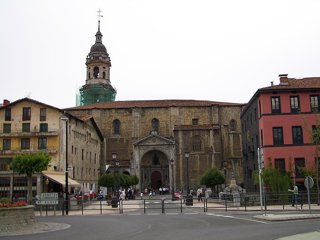 Azkoitia's central square, with Paroquia Santa Maria La Real (the city's main church)